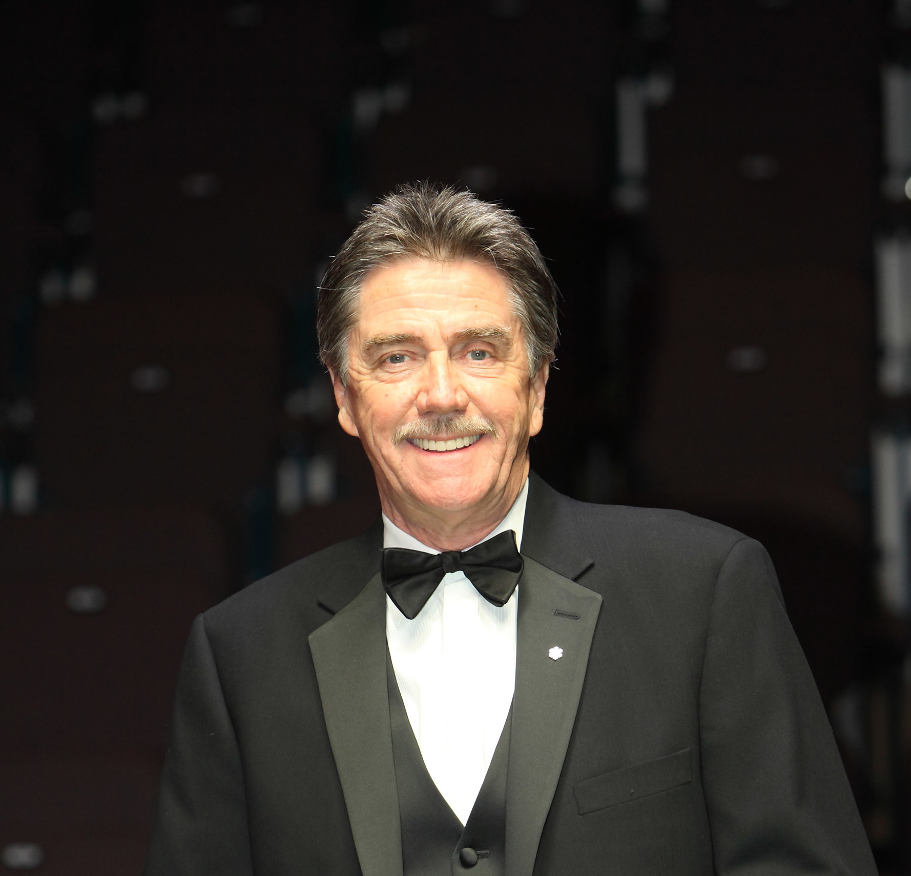 Picture of World Snooker Champion Cliff Thorburn taken during the Snooker Legends Tour of 2010. This was held at The Crucible Theatre in Sheffield England